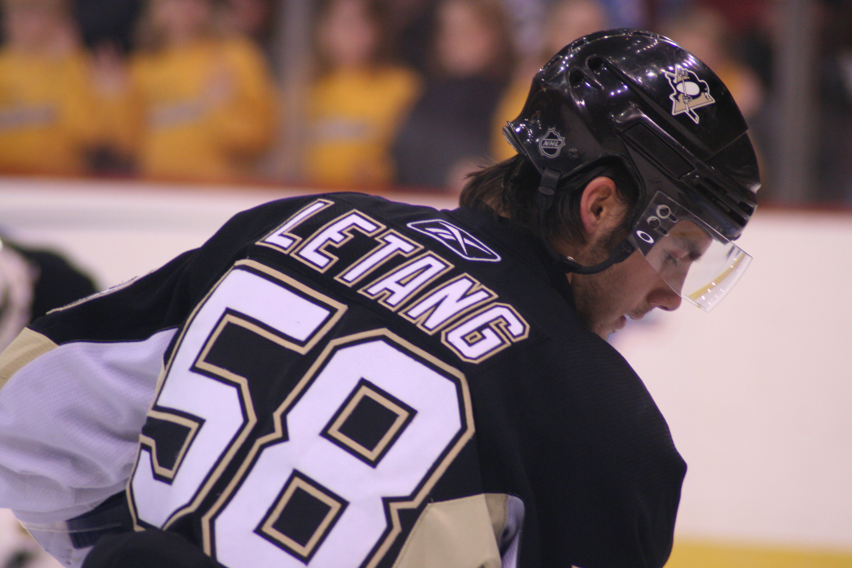 Kristopher Letang of the Pittsburgh Penguins, at a 4–1 win over the New Jersey Devils